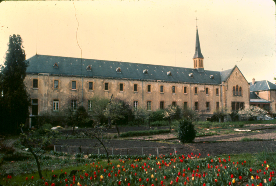 North face of the Carmel de Dijon, France